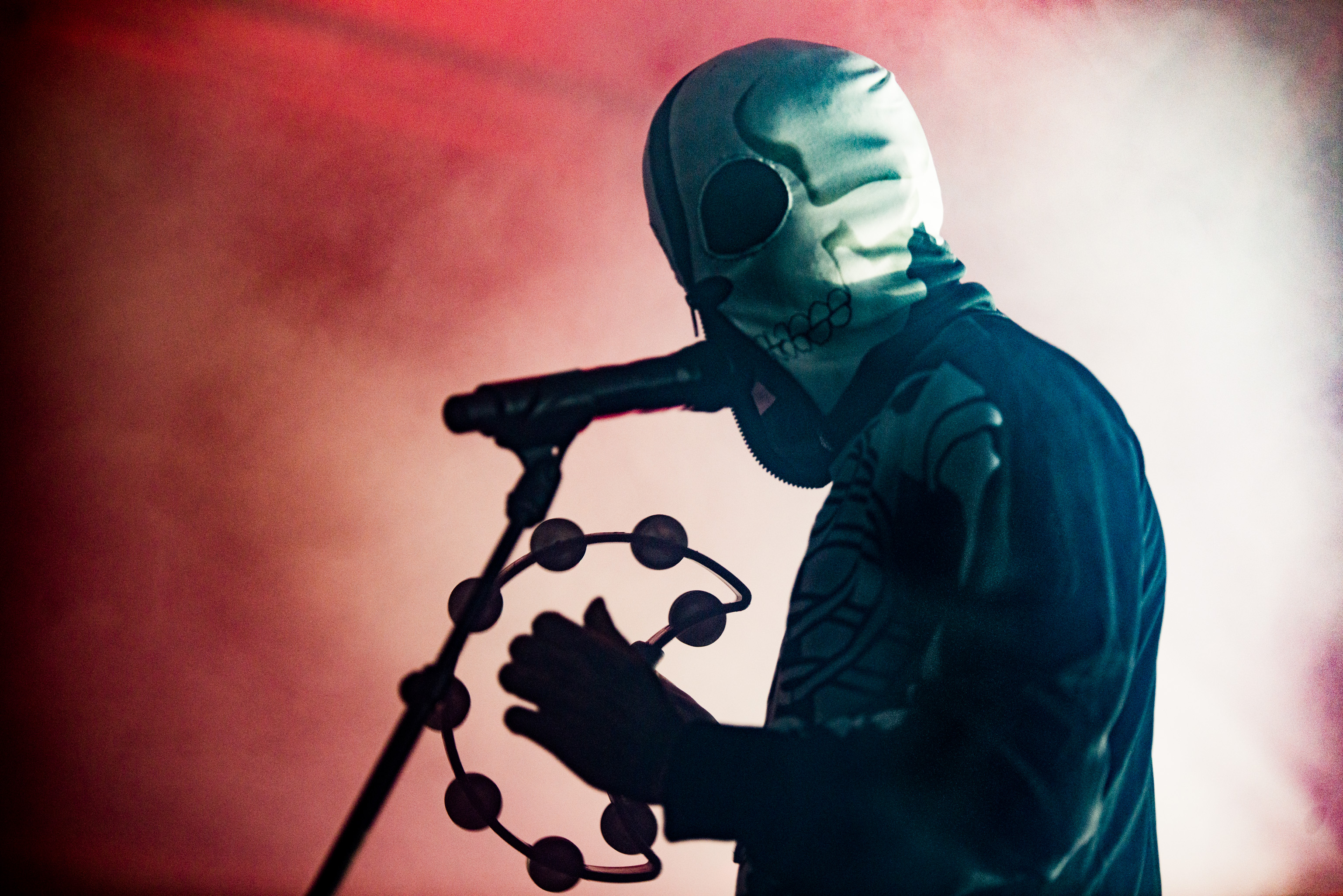 Twenty One Pilots Live @ Munich 2016